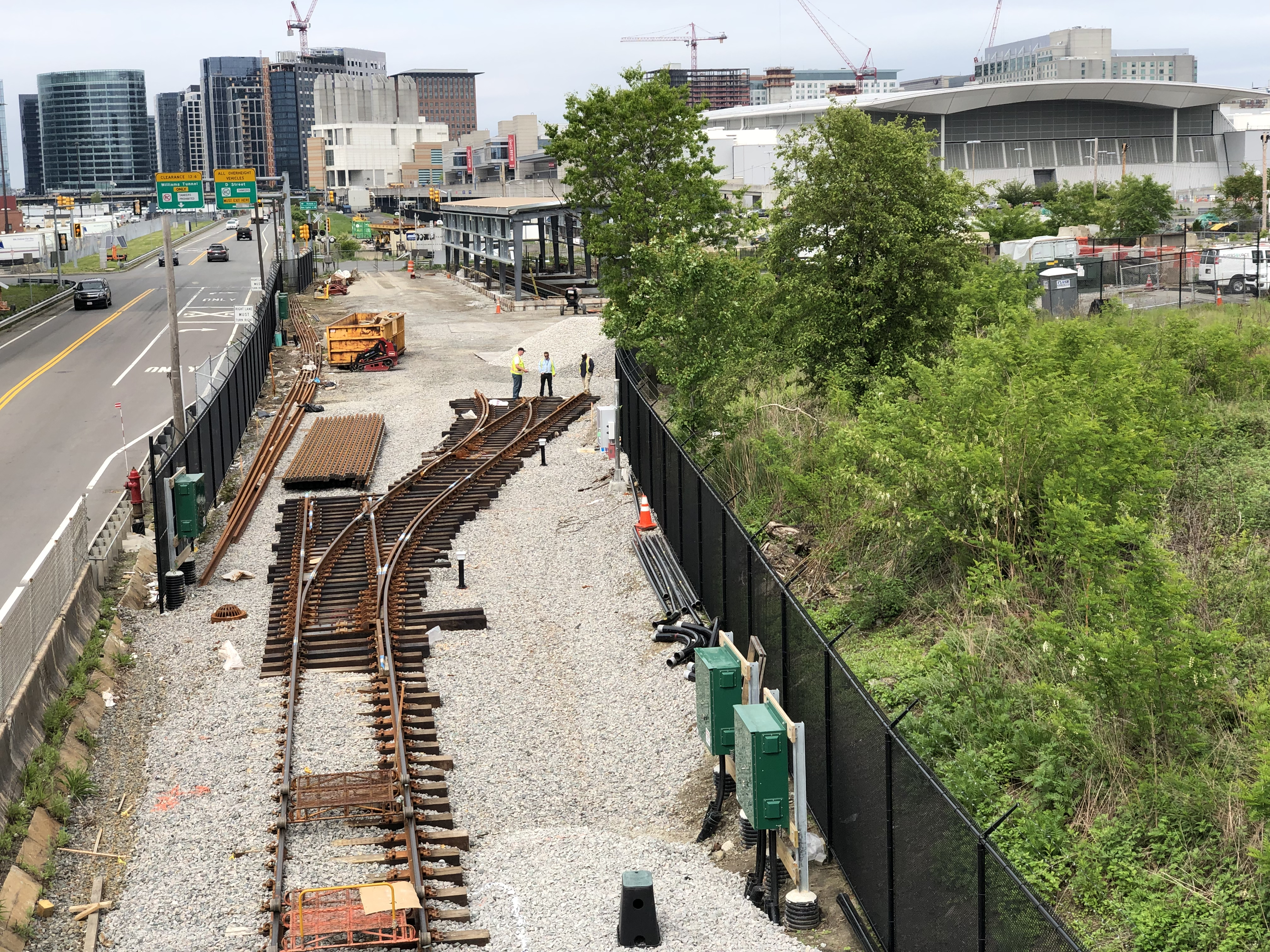 MBTA Red Line test track construction from 2nd Street bridge, looking north. New pair of switches has just been installed. A test building is under construction.